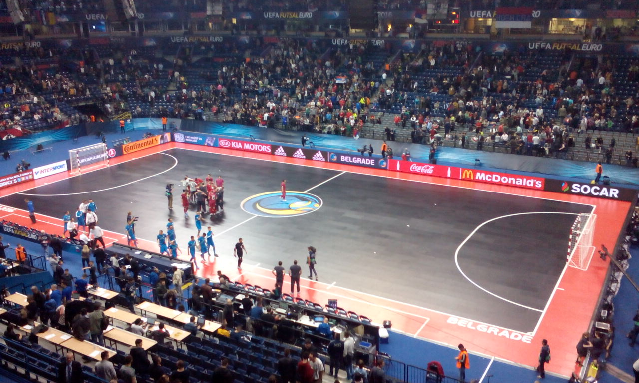 UEFA Futsal EURO 2016 opening match between Serbia and Slovenia, Belgrade Arena, February 2, 2016